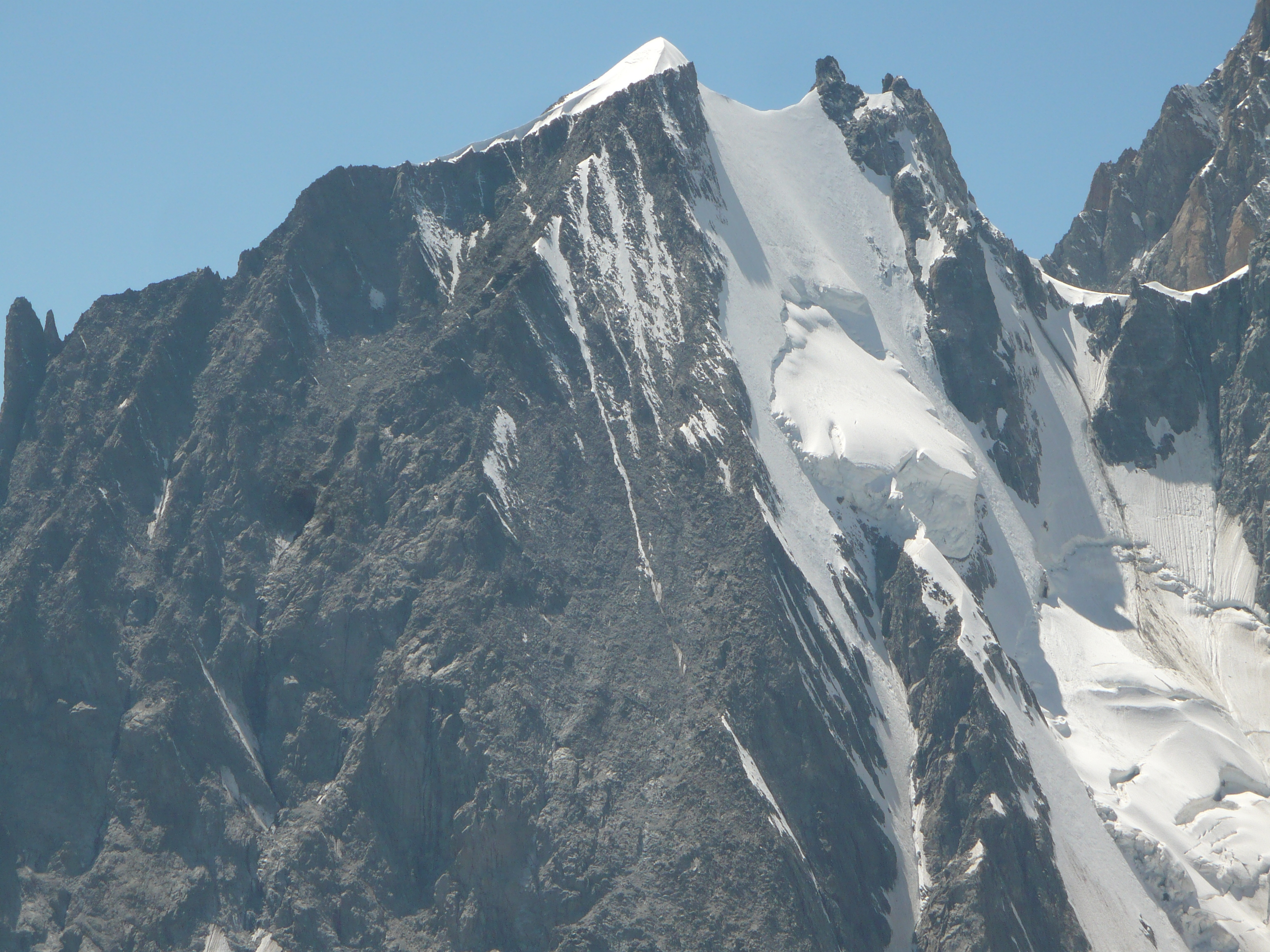 Aiguille Blanche de Peuterey - Mont Blanc massif - Graian Alps